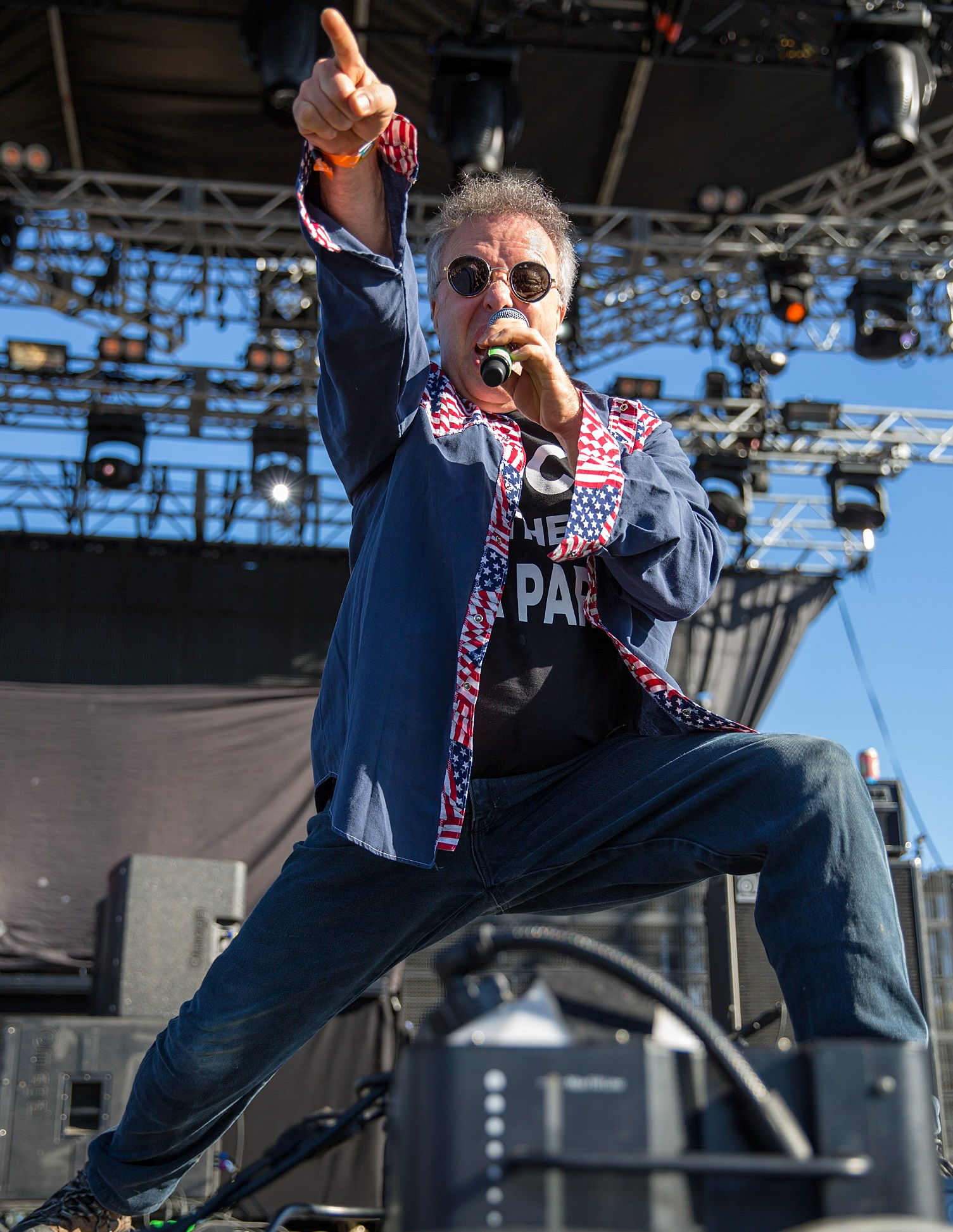 Jello Biafra performing at Fun Fun Fun Fest 2014 in Austin, Texas.